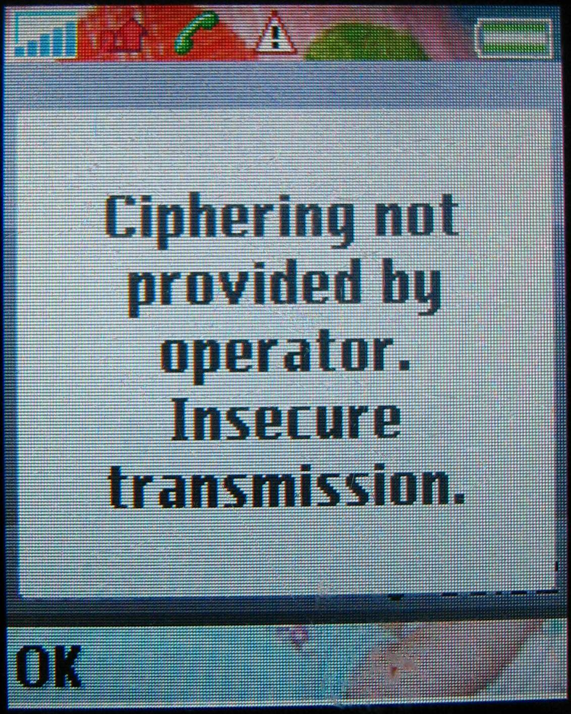 The screen of a mobile phone with warning that ciphering is not provided